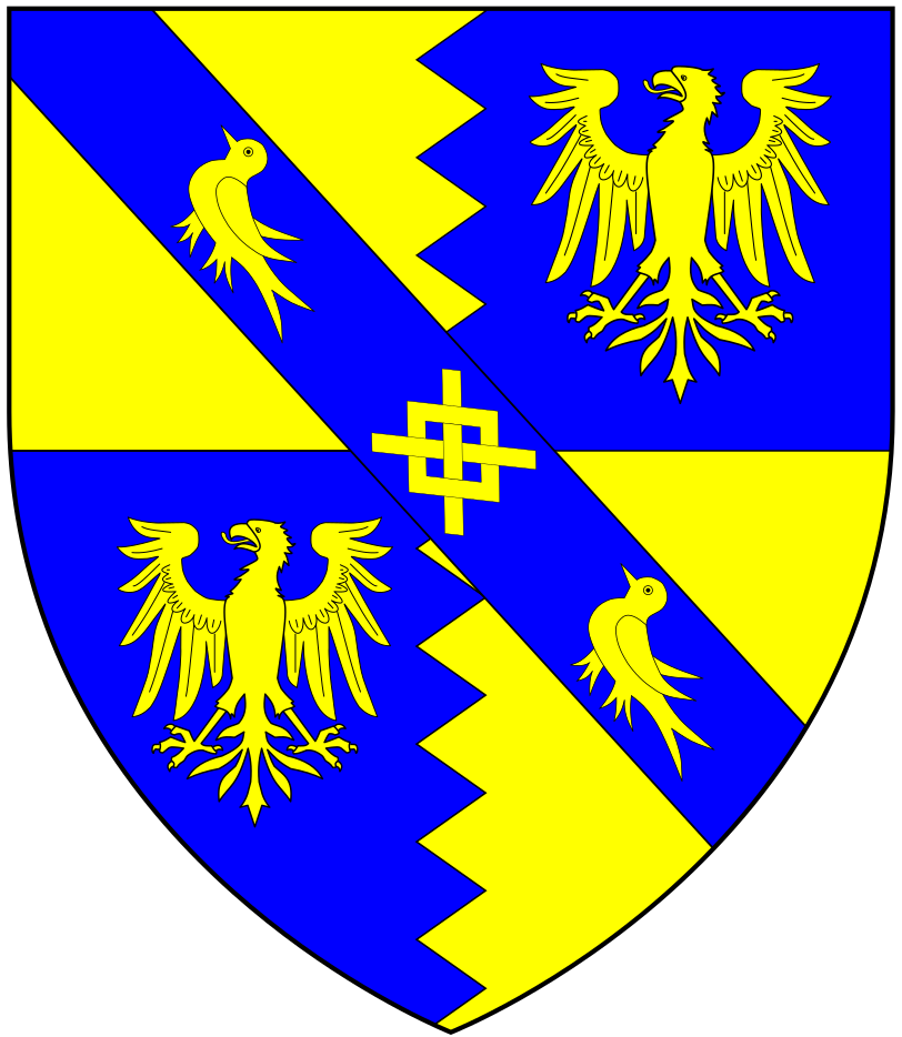 arms of Sir Thomas Audley, 1st Baron Audley of Walden, KG. Arms of Audley: Quarterly per pale indented or and azure, in the 2nd and 3rd an eagle displayed of the 1st on a bend of the 2nd a fret between two martlets of the first (Ashmole, Elias, History of the Most Noble Order of the Garter, London, 1715, p.525, no.304)[1]) As shown on Lord Audley's Garter stall plate in St. George's Chapel, Windsor Castle